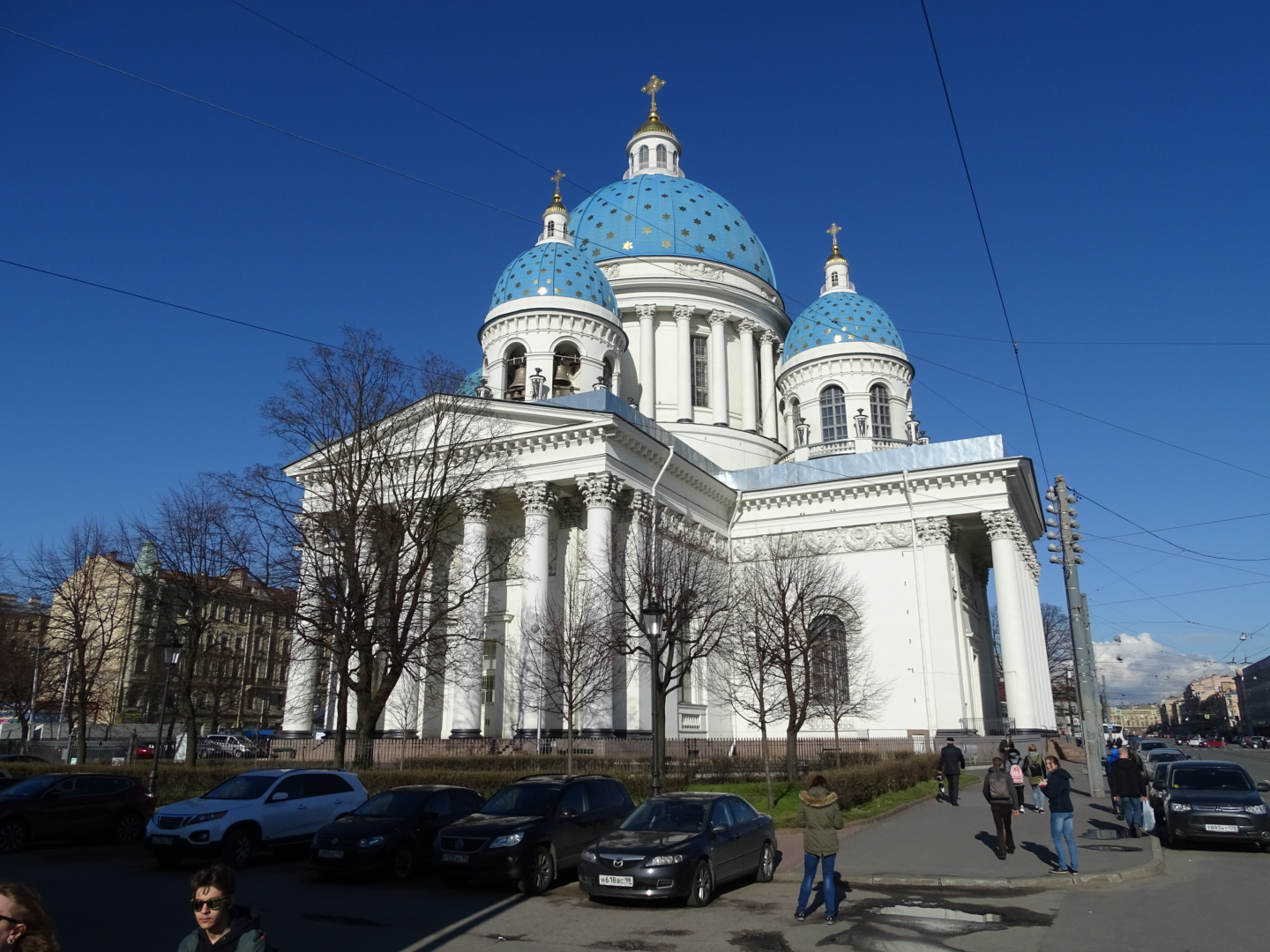 Drievuldigheidskathedraal